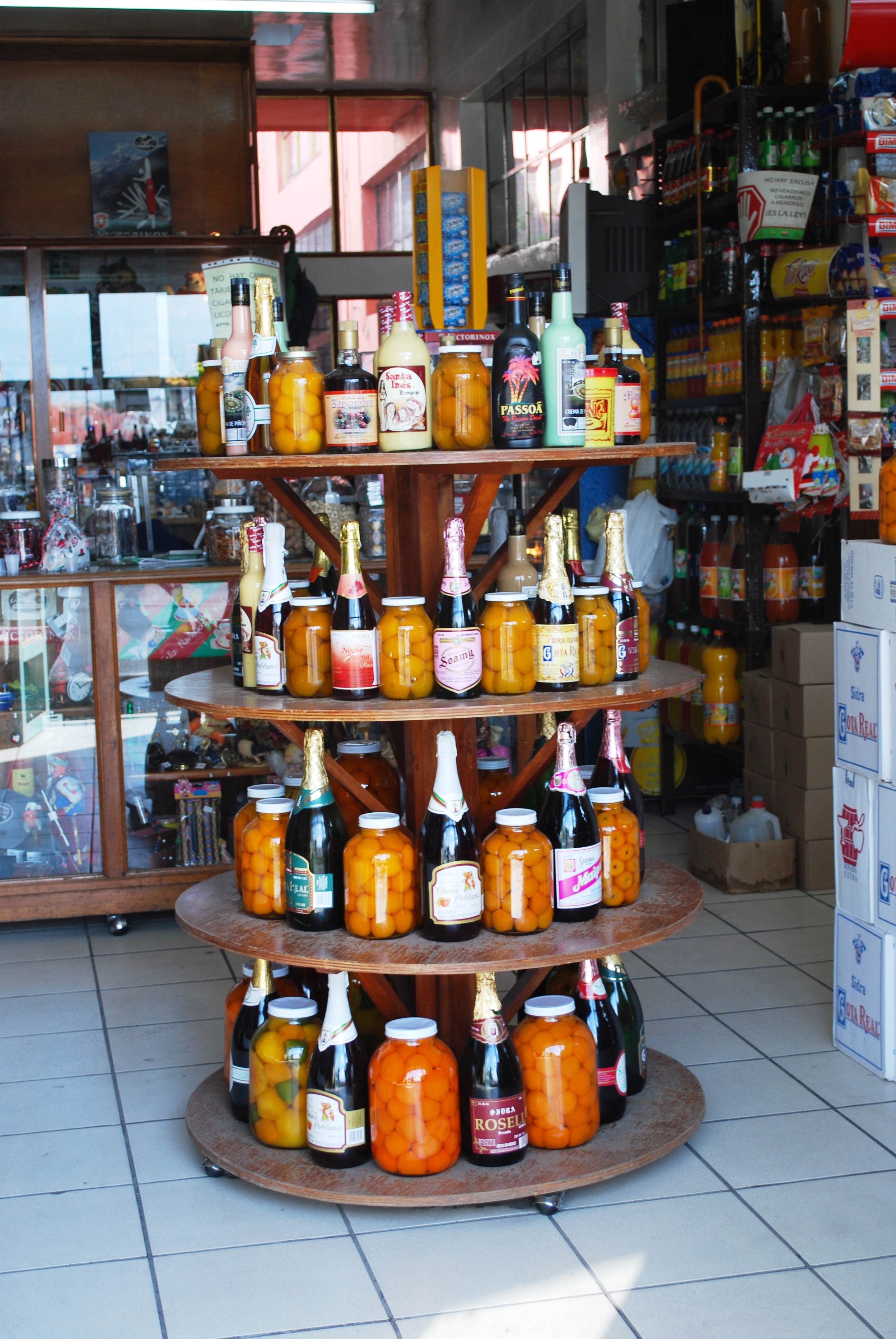 Cider and fruit conserve display at a store in Huejotzingo, Puebla, Mexico